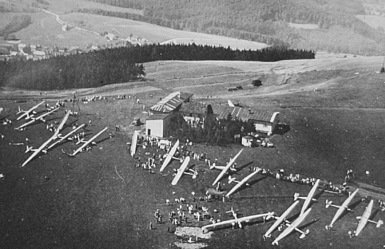 View at the Wasserkuppe with Gliders out of a plane